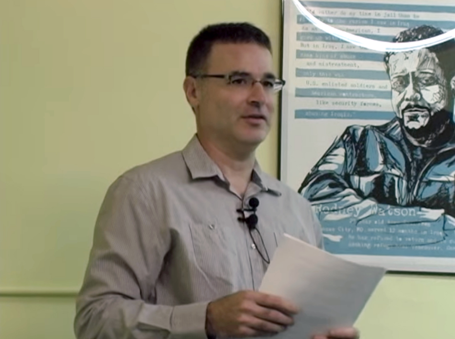 American journalist Dahr Jamail giving a talk at Coffee Strong in Lakewood, Washington.